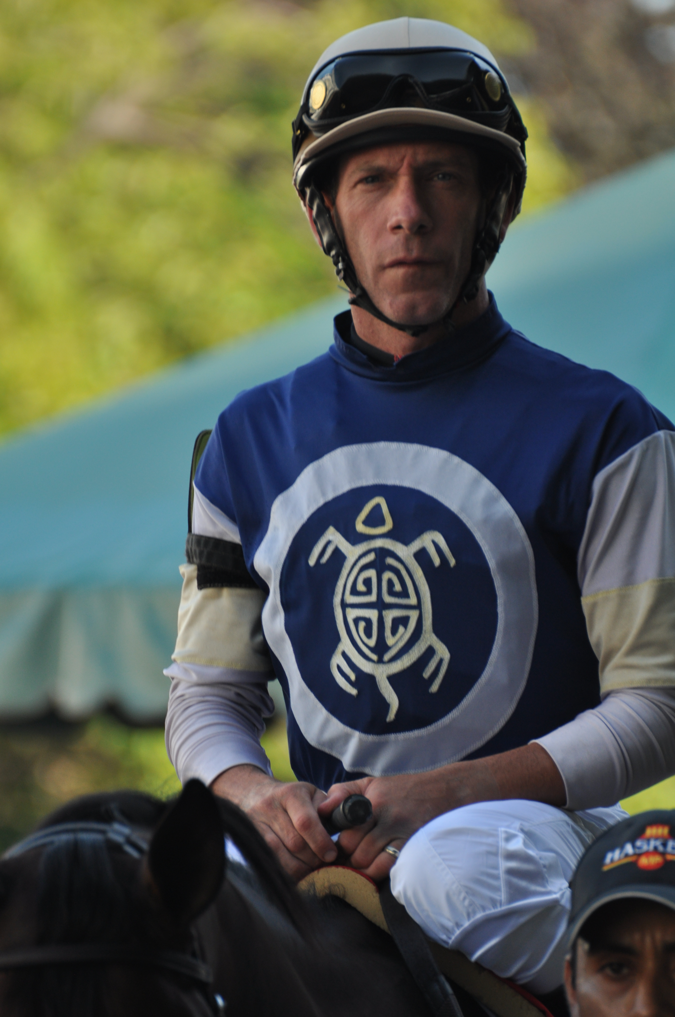 Jockey Mike Luzzi on August 20, 2011 at 2011 Iselin Stakes at Monmouth Park Racetrack. He rode Dueling Alex to a seventh place finish.